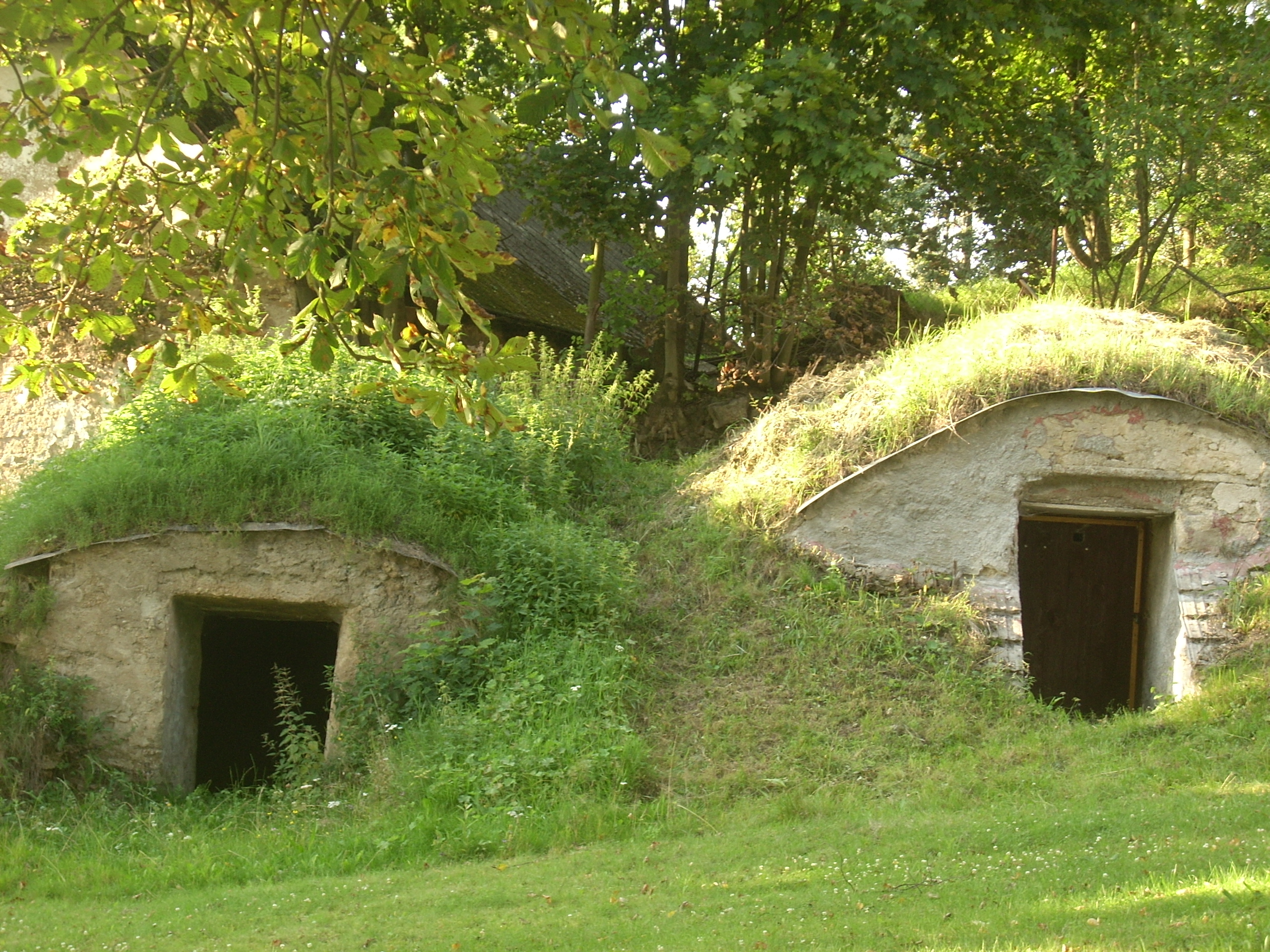 Věžnička, cellars